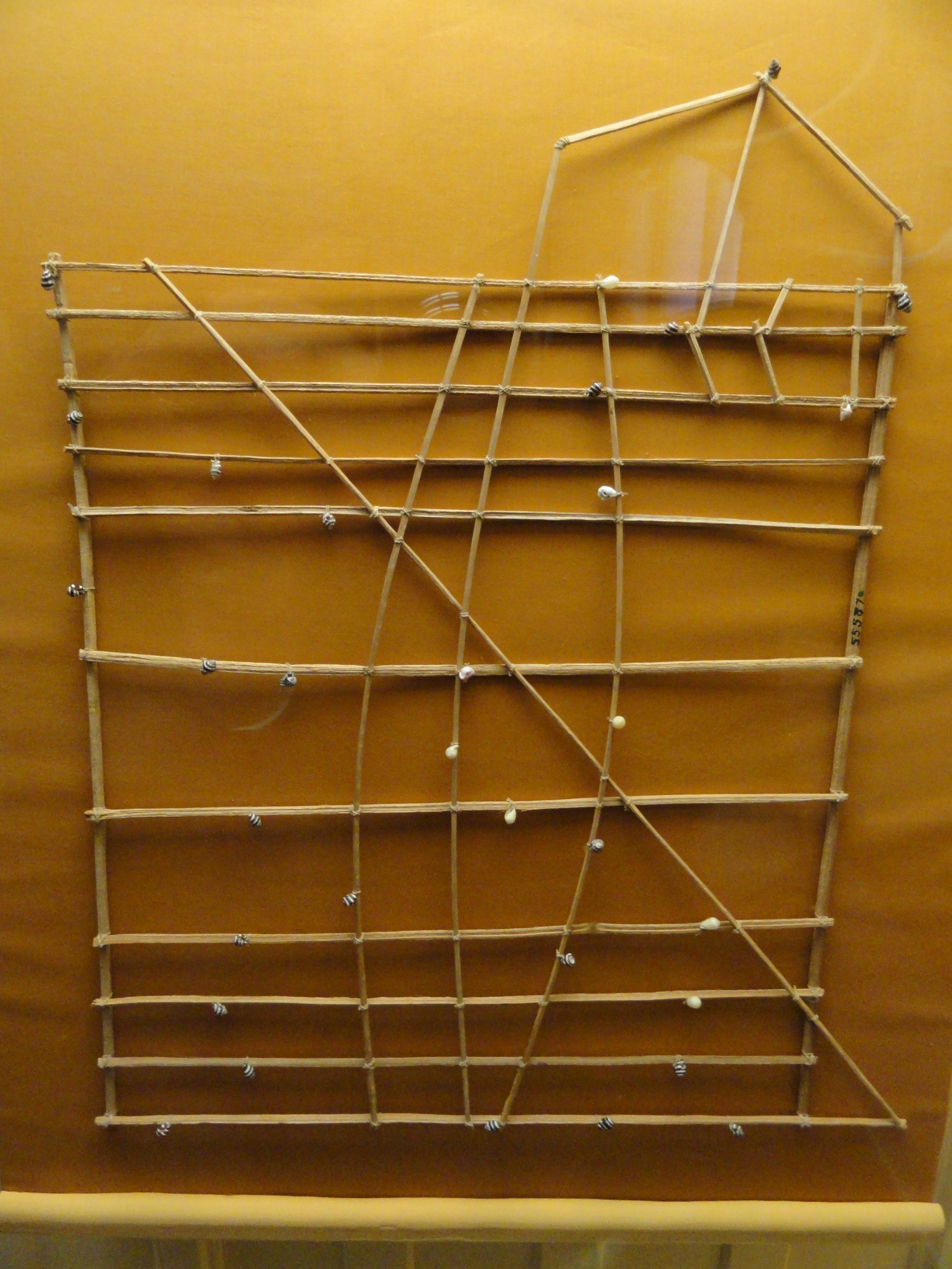 Stick chart, Marshall Islands. Exhibit from the Pacific Collection, Peabody Museum, Harvard University, Cambridge, Massachusetts, USA. Photography was permitted without restriction; exhibit is old enough so that it is in the public domain.